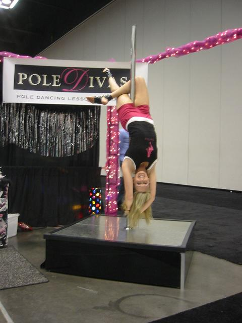 Cross Knee Release on a portable strippers pole.